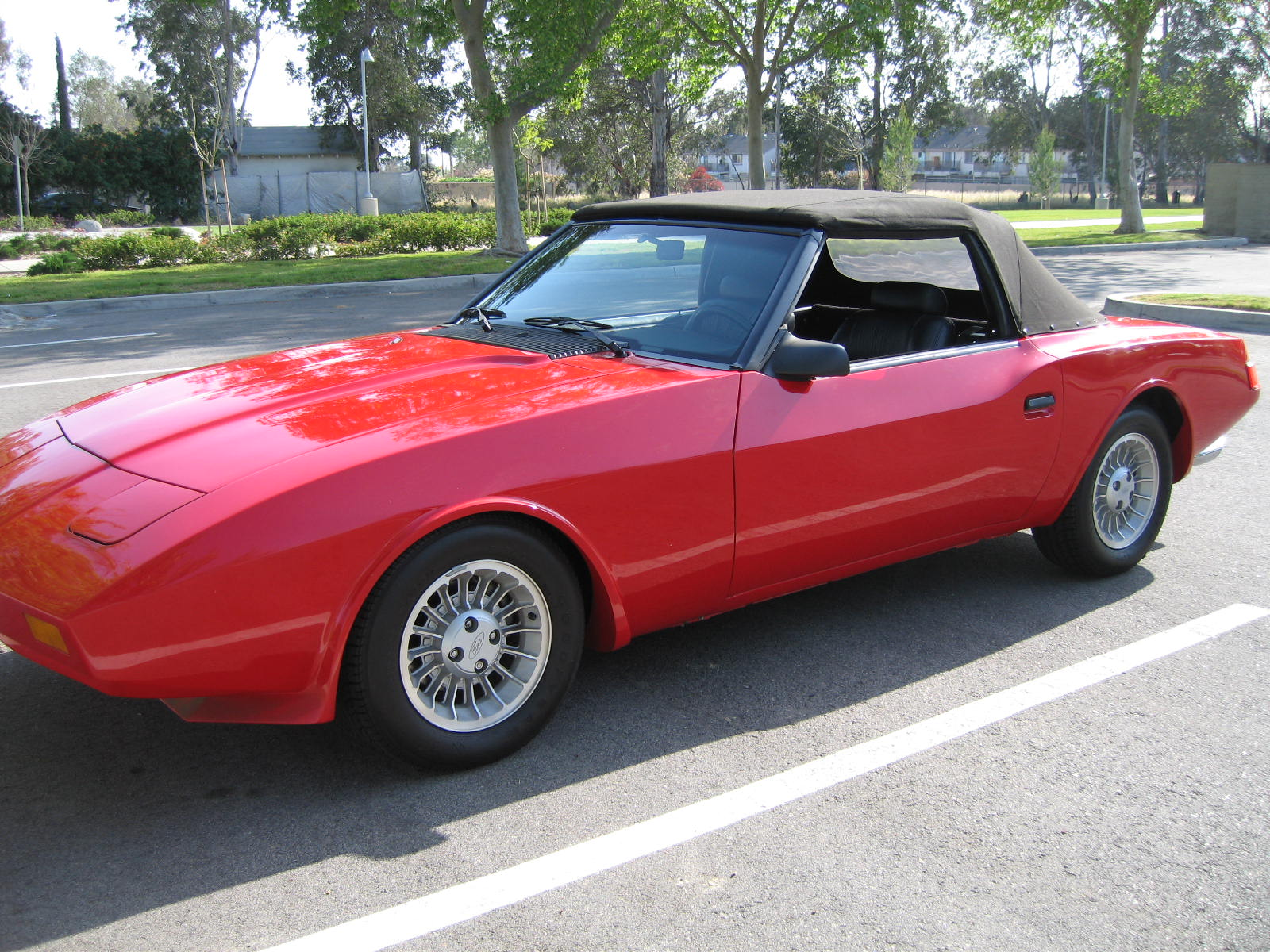 This is the Kelly Python automobile, designed and put into production by Alvin Kelly. This model is #3 and was the first with a V8.